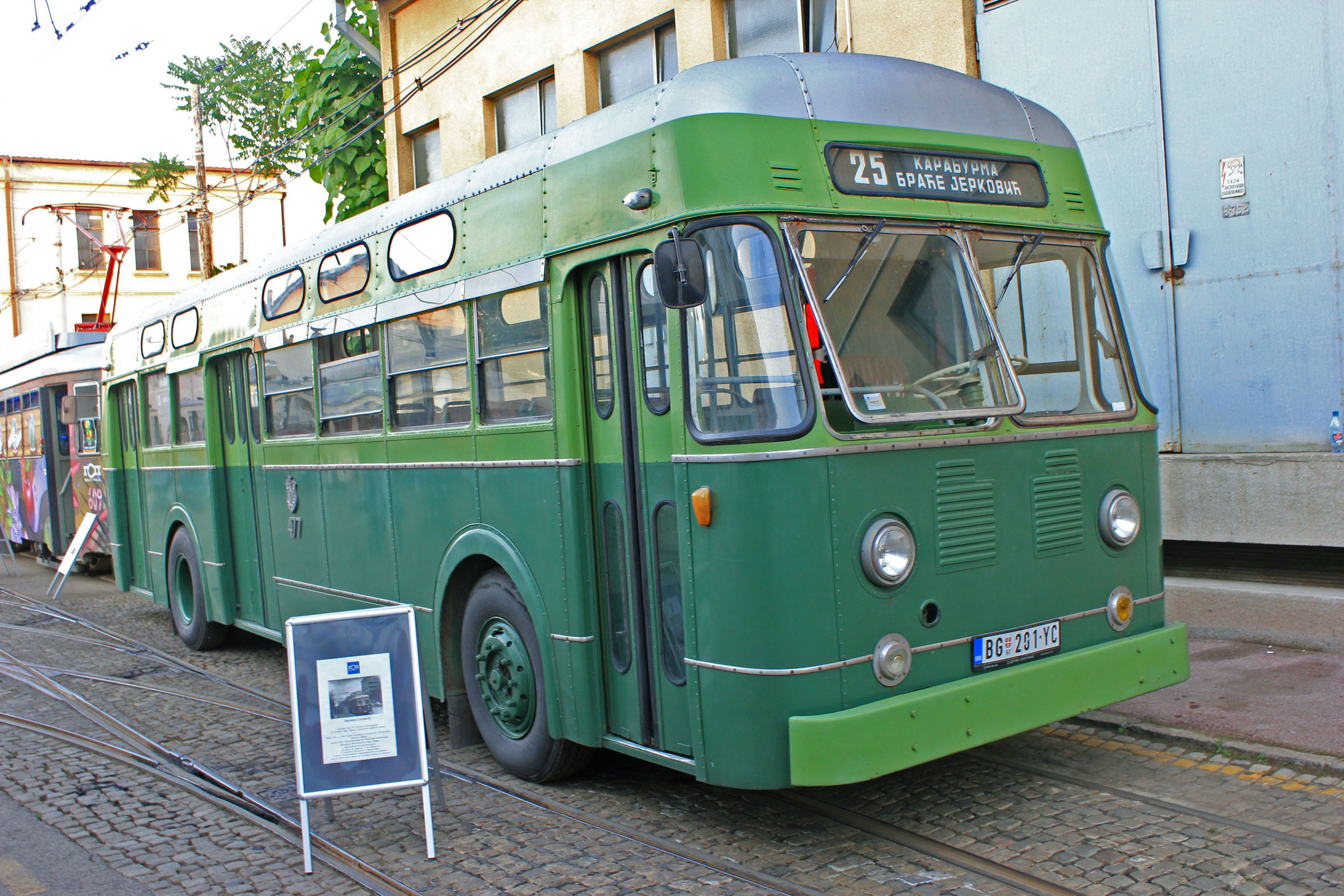 Old museum bus Leyland Worldmaster of GSP Beograd public transport company with vehicle number 477 at "Dorćol" depot on display during the Night of museum, 2016.